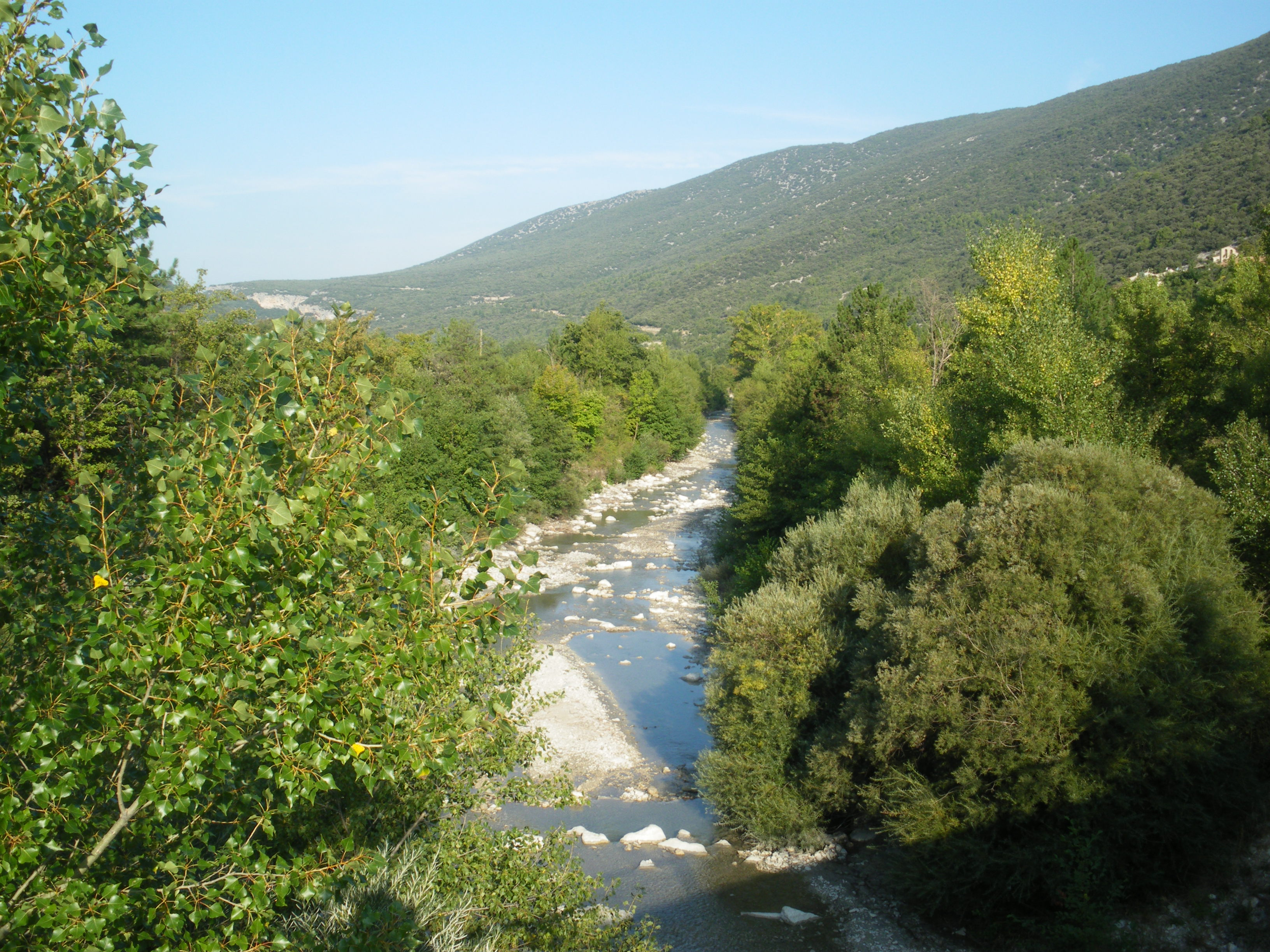 Toulourenc rivers, at Saint Léger du Ventoux, Vaucluse, France